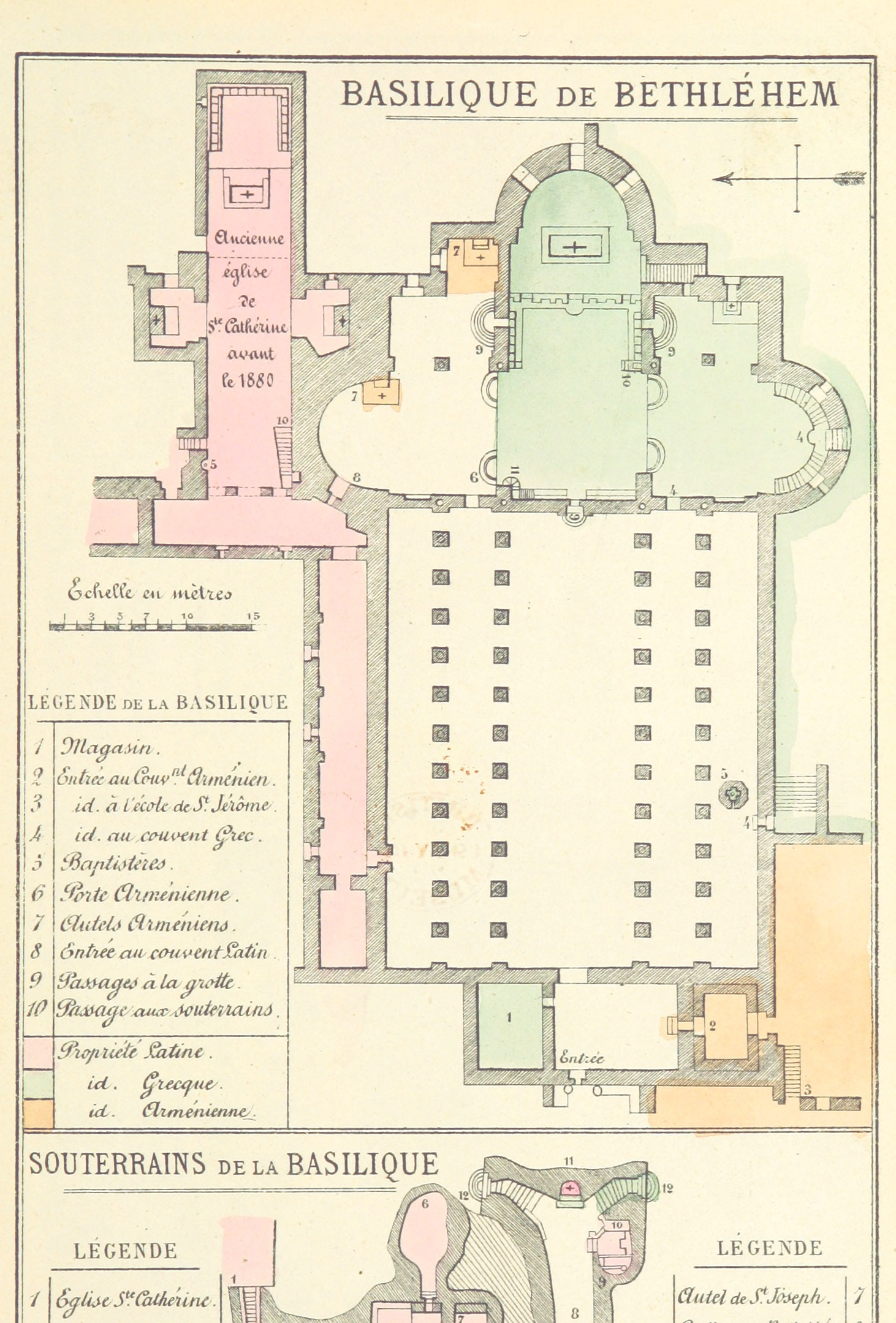 View this map on the BL Georeferencer service. Image taken from: Title: "La Bible et la Palestine au XIXme siècle. [With a preface by J. W. Lelièvre.]", "Bible. Appendix. Miscellaneous" Author: PIEROTTI, Ermete. Contributor: LELIÈVRE, J. Wesley. Shelfmark: "British Library HMNTS 10077.i.9." Page: 407 Place of Publishing: Nimes Date of Publishing: 1882 Issuance: monographic Identifier: 002912807 Explore: Find this item in the British Library catalogue, 'Explore'. Download the PDF for this book (volume: 0) Image found on book scan 407 (NB not necessarily a page number) Download the OCR-derived text for this volume: (plain text) or (json) Click here to see all the illustrations in this book and click here to browse other illustrations published in books in the same year. Order a higher quality version from here.